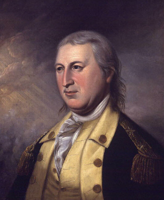 Portrait of Horatio Gates